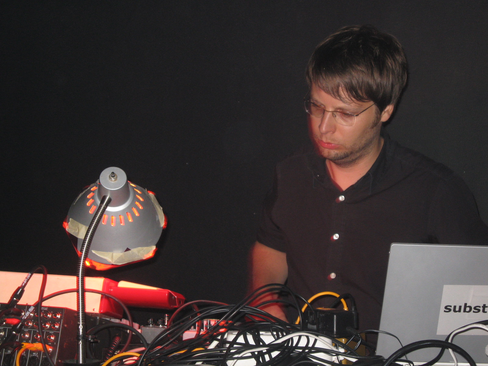 Jan Jelinek is a German electronic musician, at the new forms festival, Vancouver